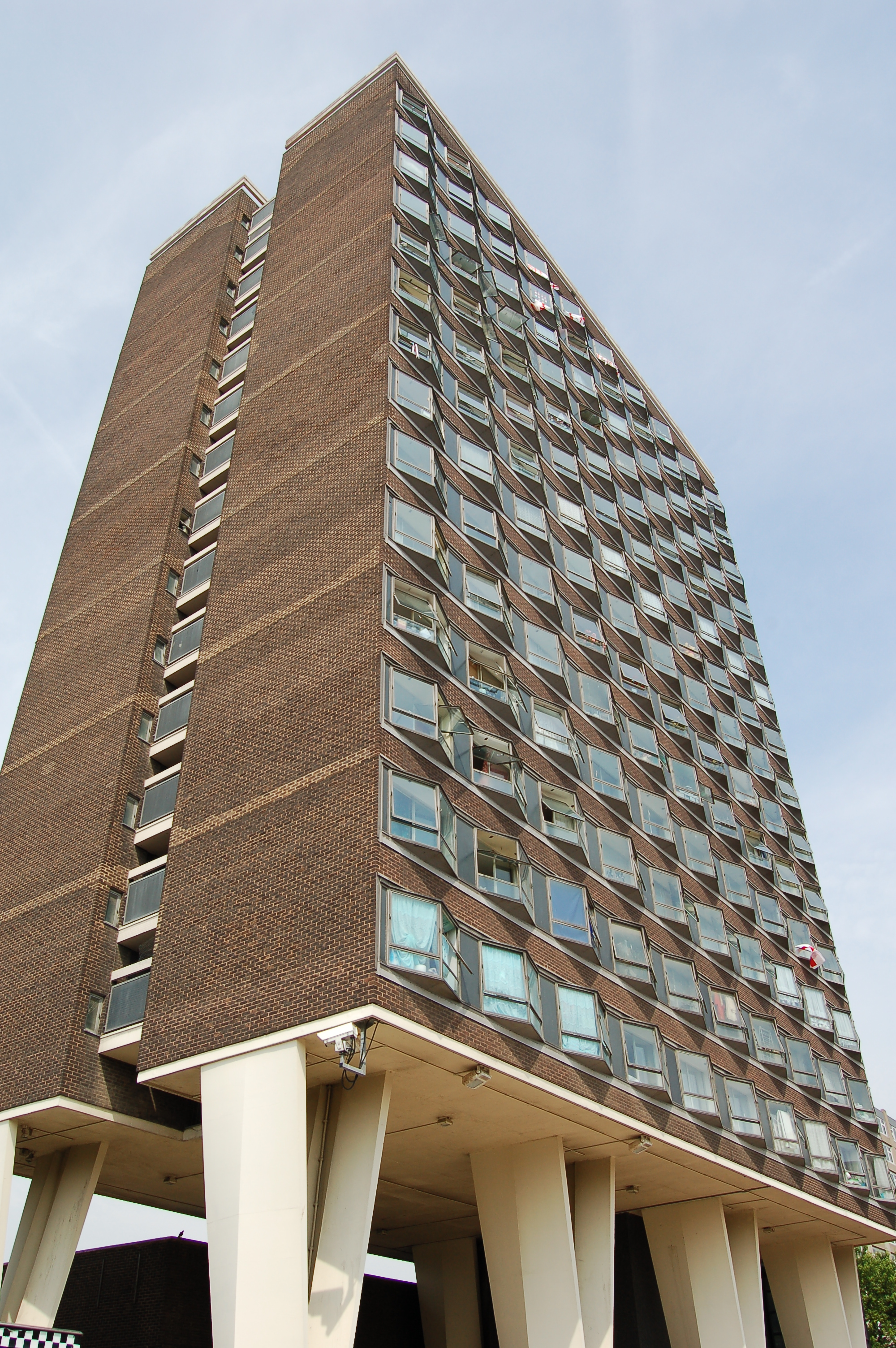 Image of the flats in Basildon town centre.